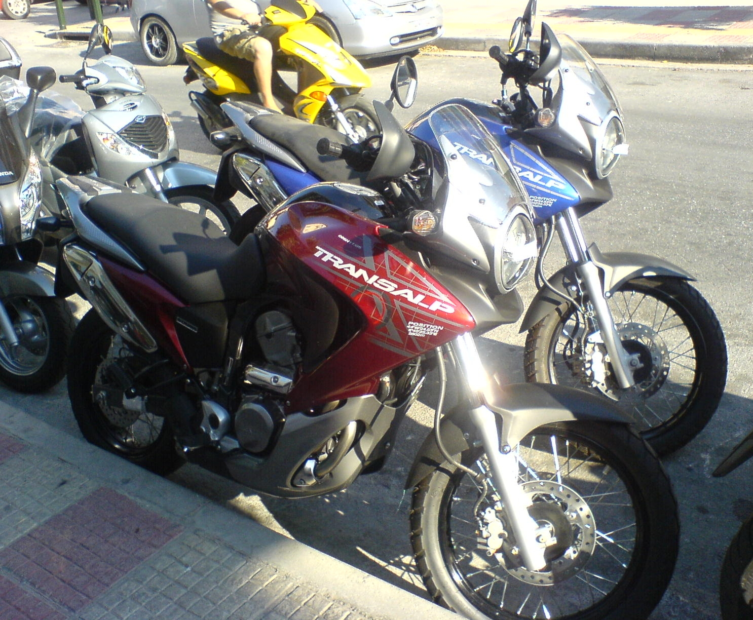 Honda Transalp 700